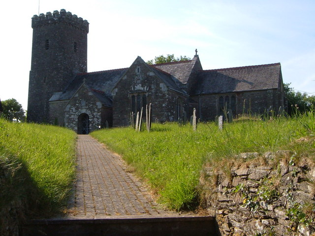 St Mary's parish church, Woodleigh, Devon, seen from the southeast